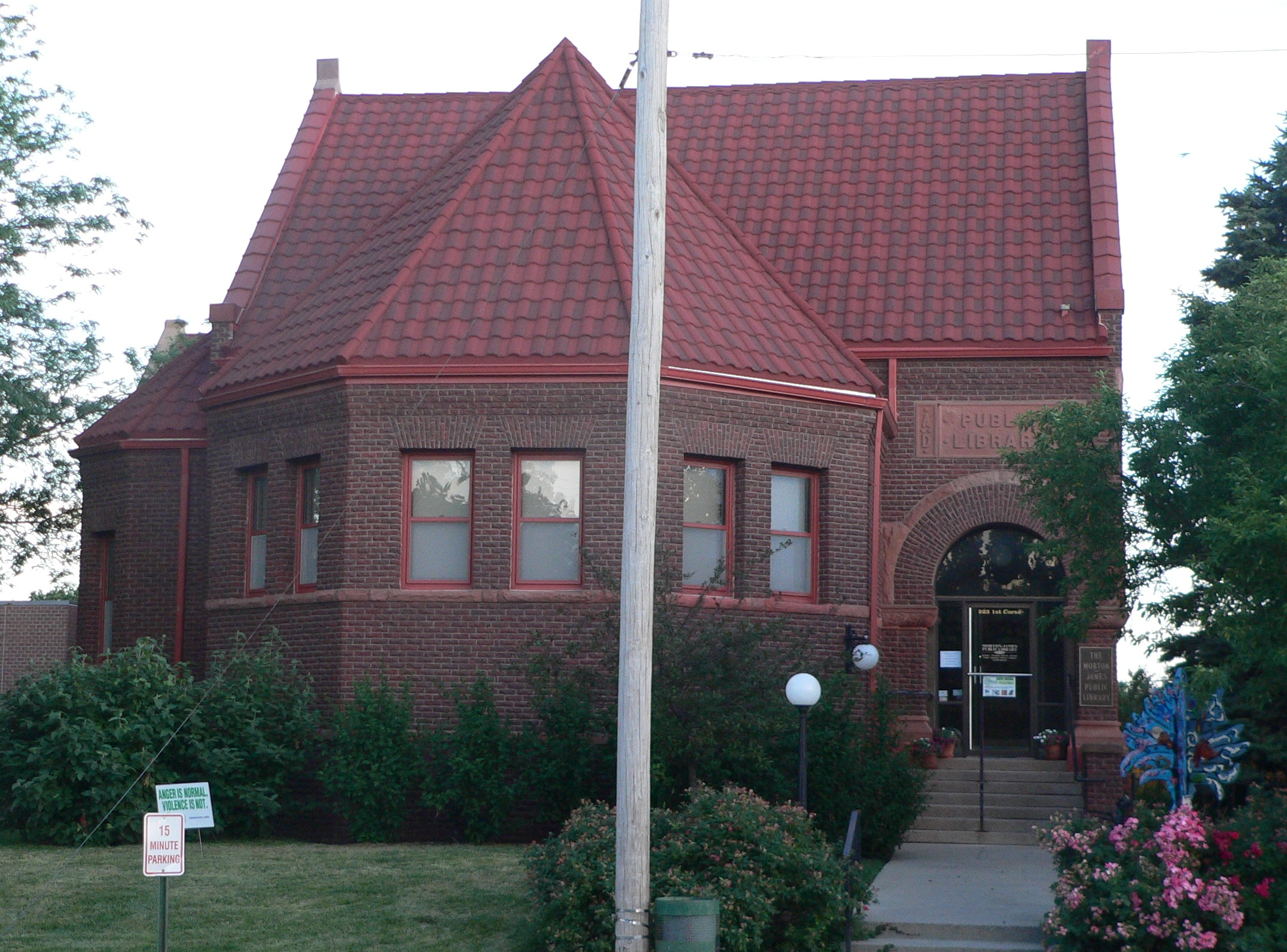 Morton-James Public Library, located at 923 First Corso in Nebraska City, Nebraska; seen from the north.